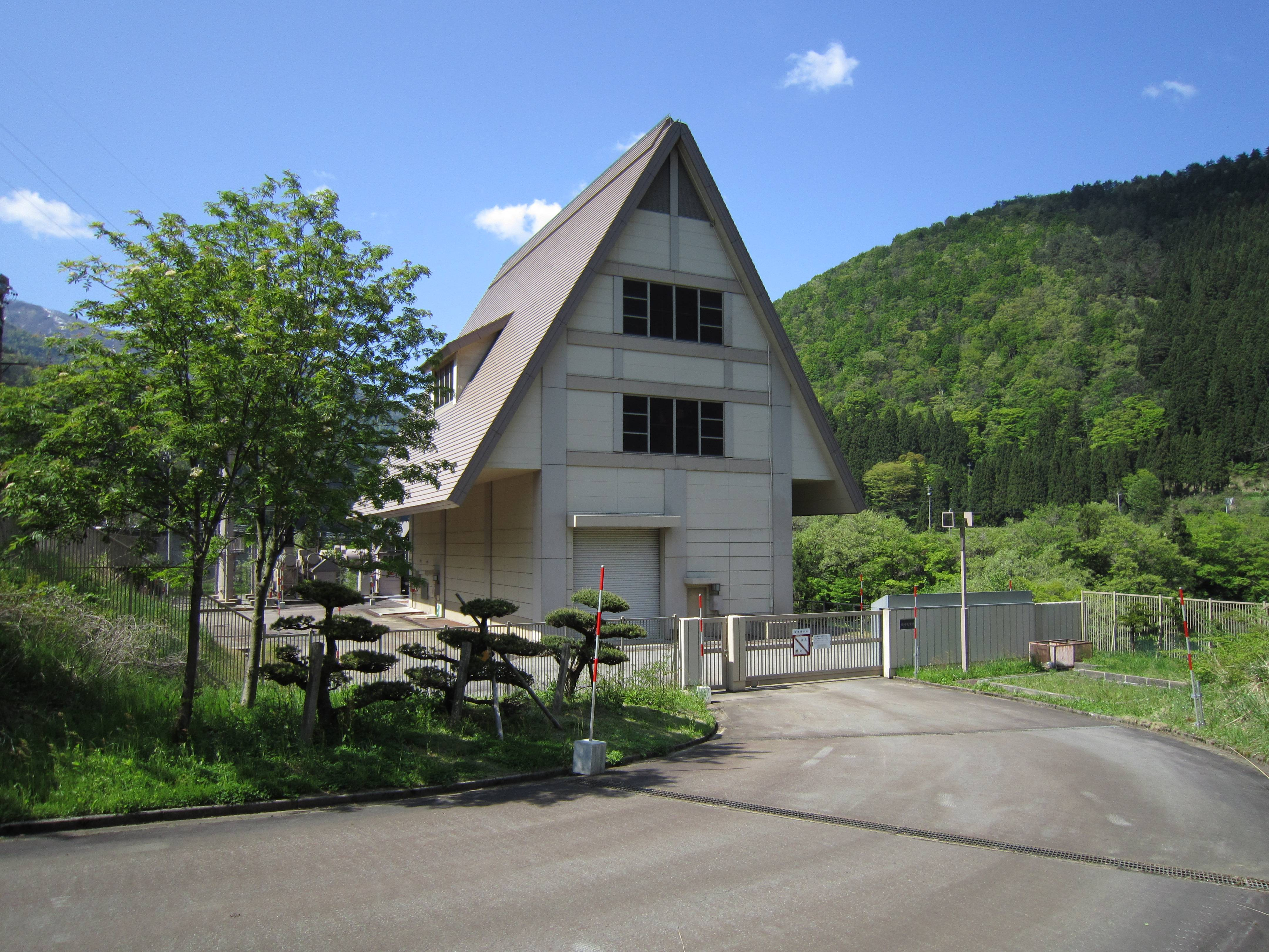 Sakaigawa power station.